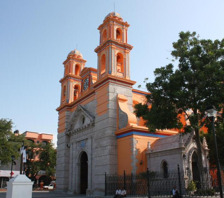 Saint Francis of Assisi Church, Iguala de la Independencia, Guerrero, Mexico : Facade